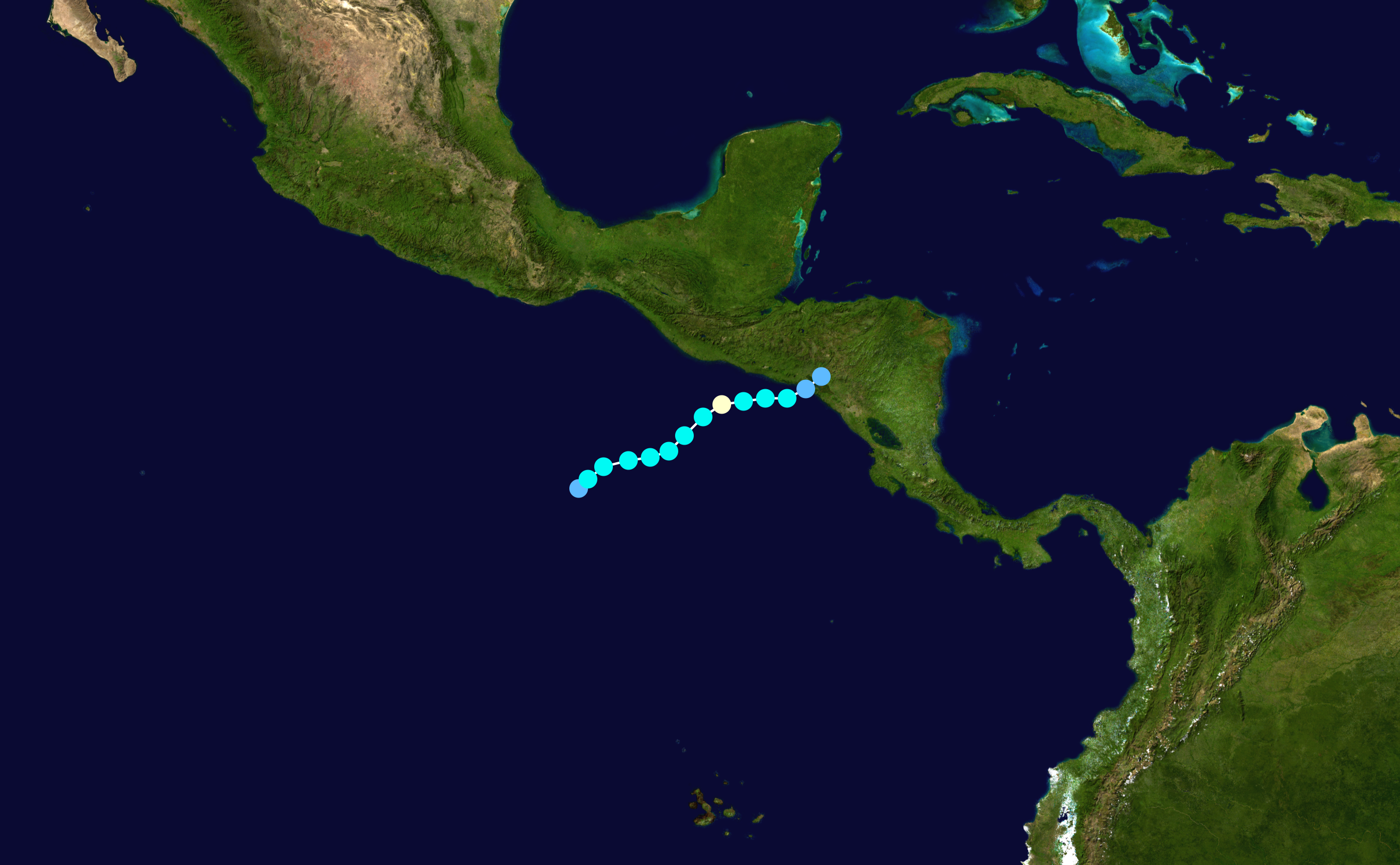 Hurricane Adrian (2005) track. Uses the color scheme from the Saffir-Simpson Hurricane Scale.